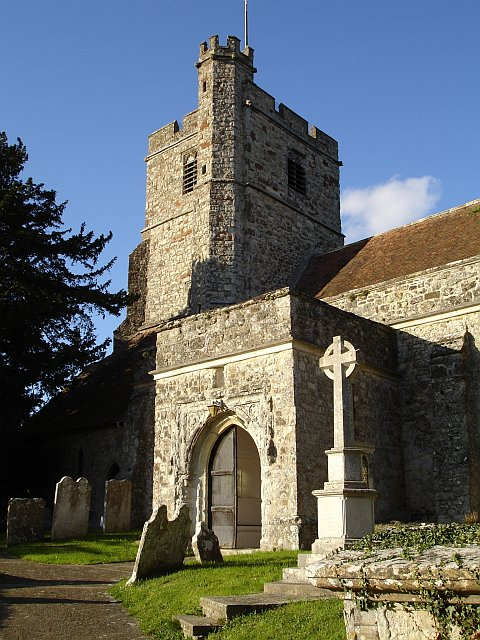 South porch and west tower of All Saints' parish church, Ulcombe, Kent, seen from the southeast